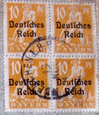 A block of four 1920s Bavarian stamps overprinted with the words Deutsches Reich ("German Reich").